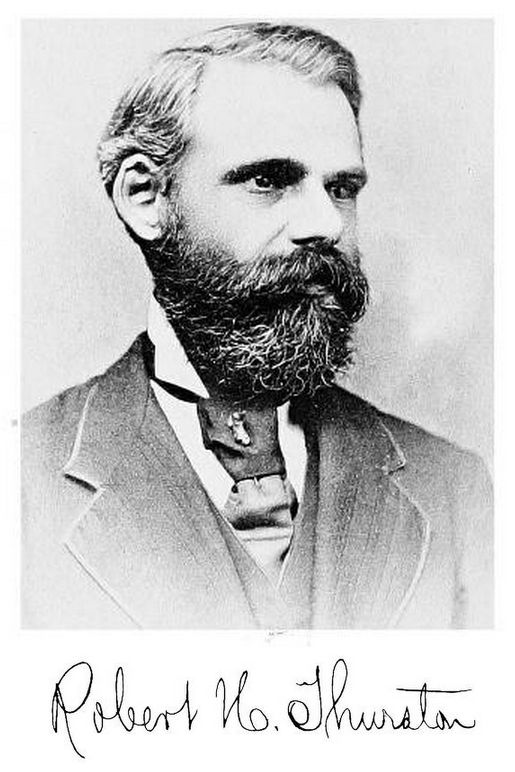 Robert Henry Thurston of Hoboken, N.J.